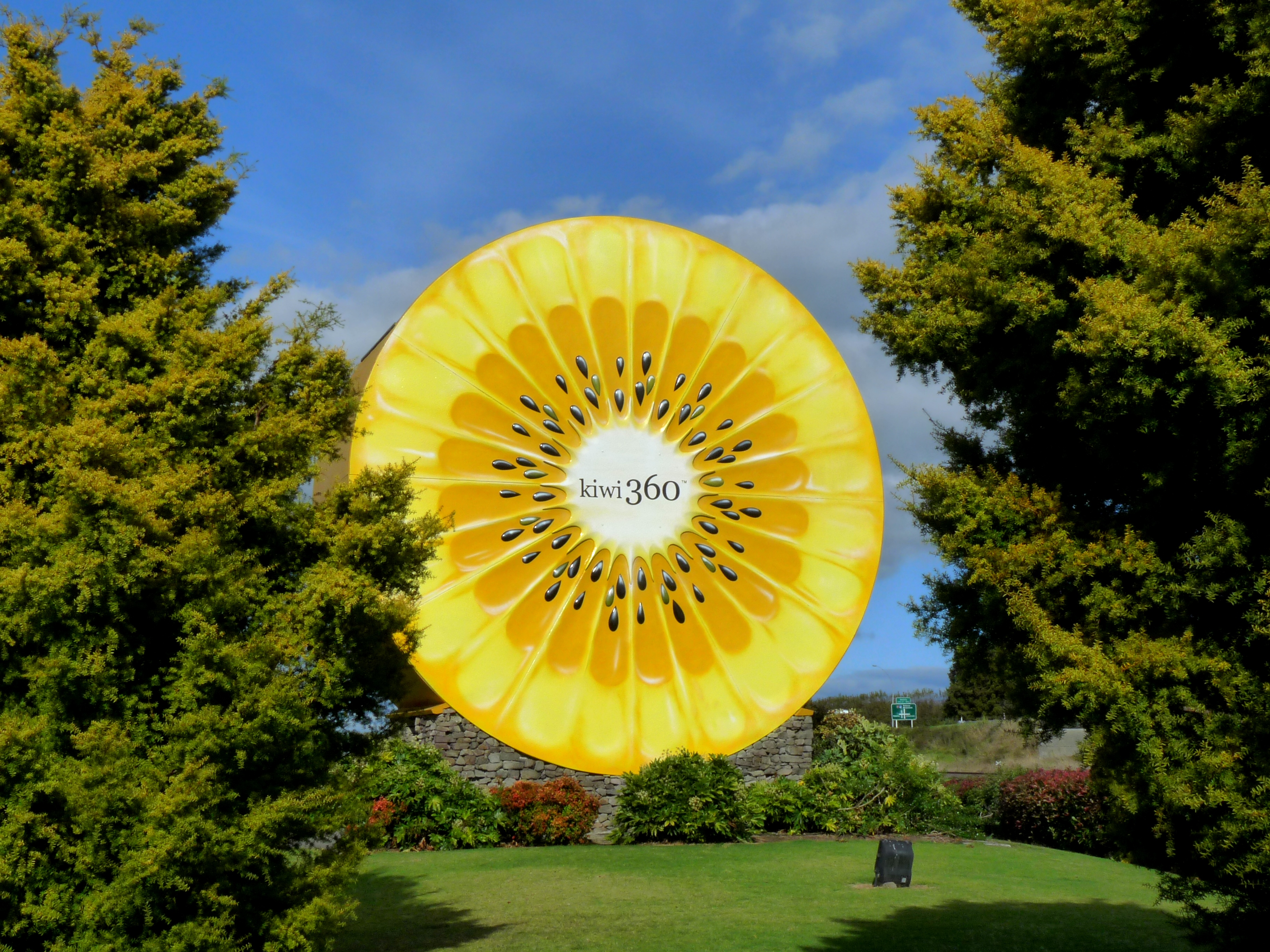 The Kiwi360 in Te Puke, New Zealand. One side of the Kiwi360 is green, and the other side (shown) is yellow.